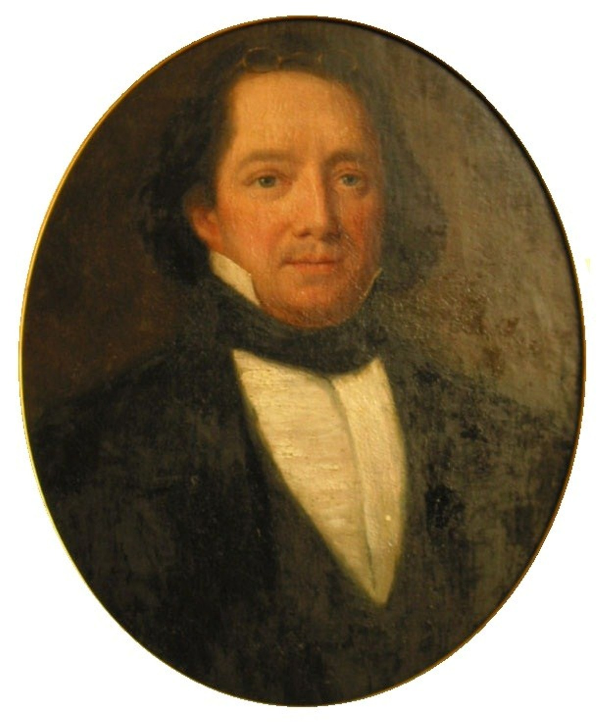 Achille Charles Louis Napoléon Murat (Italian : Achille Carlo Luigi Napoleone Murat), crown prince of Naples hereditary prince of Berg, 2nd prince Murat (21 January 1801 – 15 April 1847) was the eldest son of the king of Naples during the First French Empire and later in life mayor of Tallahassee, Florida in the United States.